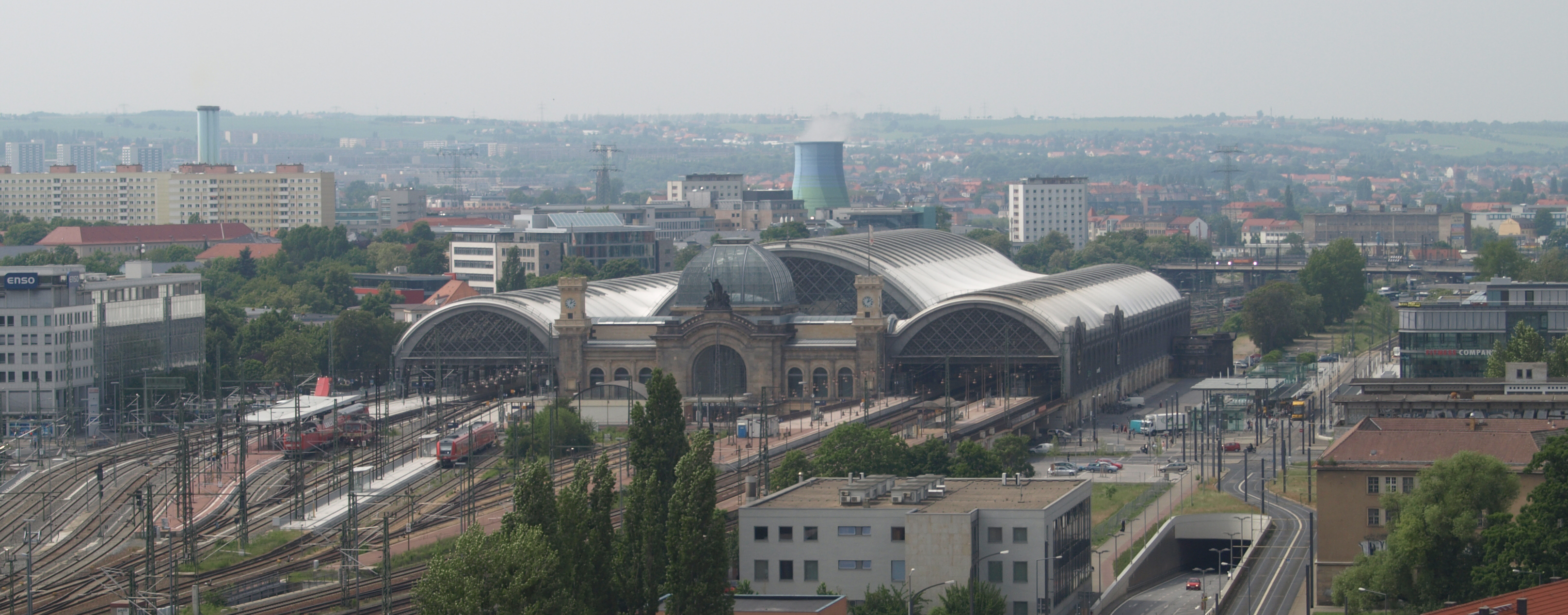 East View of Dresden Main Station